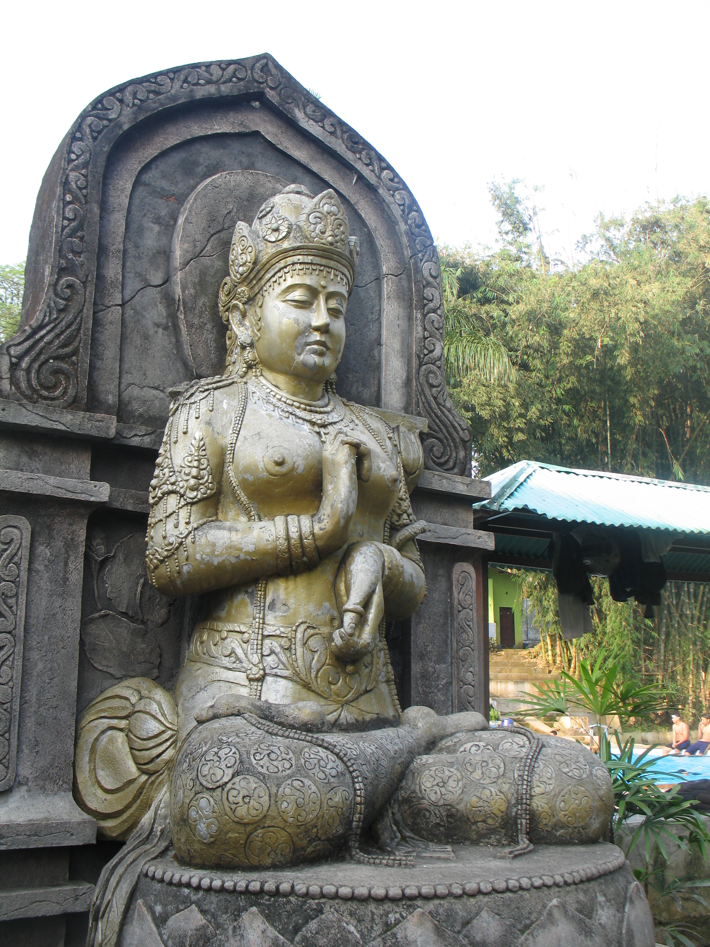 Ken Dedes statue, Singosari, East Java, Indonesia